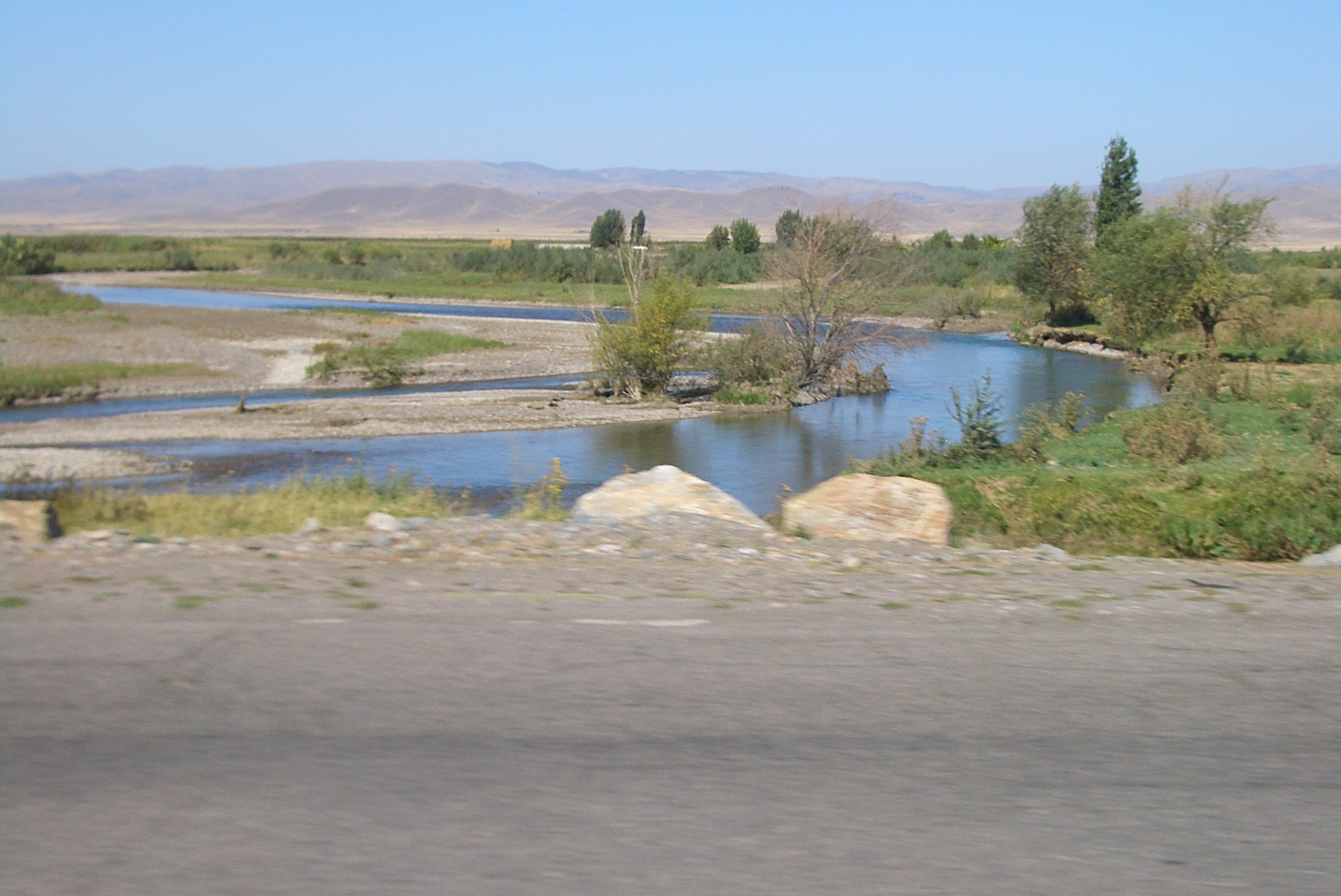 In the Chuy (Chu) Valley. Looking toward and beyond the Chuy River from the riverside highway on the Kyrgyz side, somewhere between Milianfan and Tokmak. The faraway hills are already in Kazakhstan.